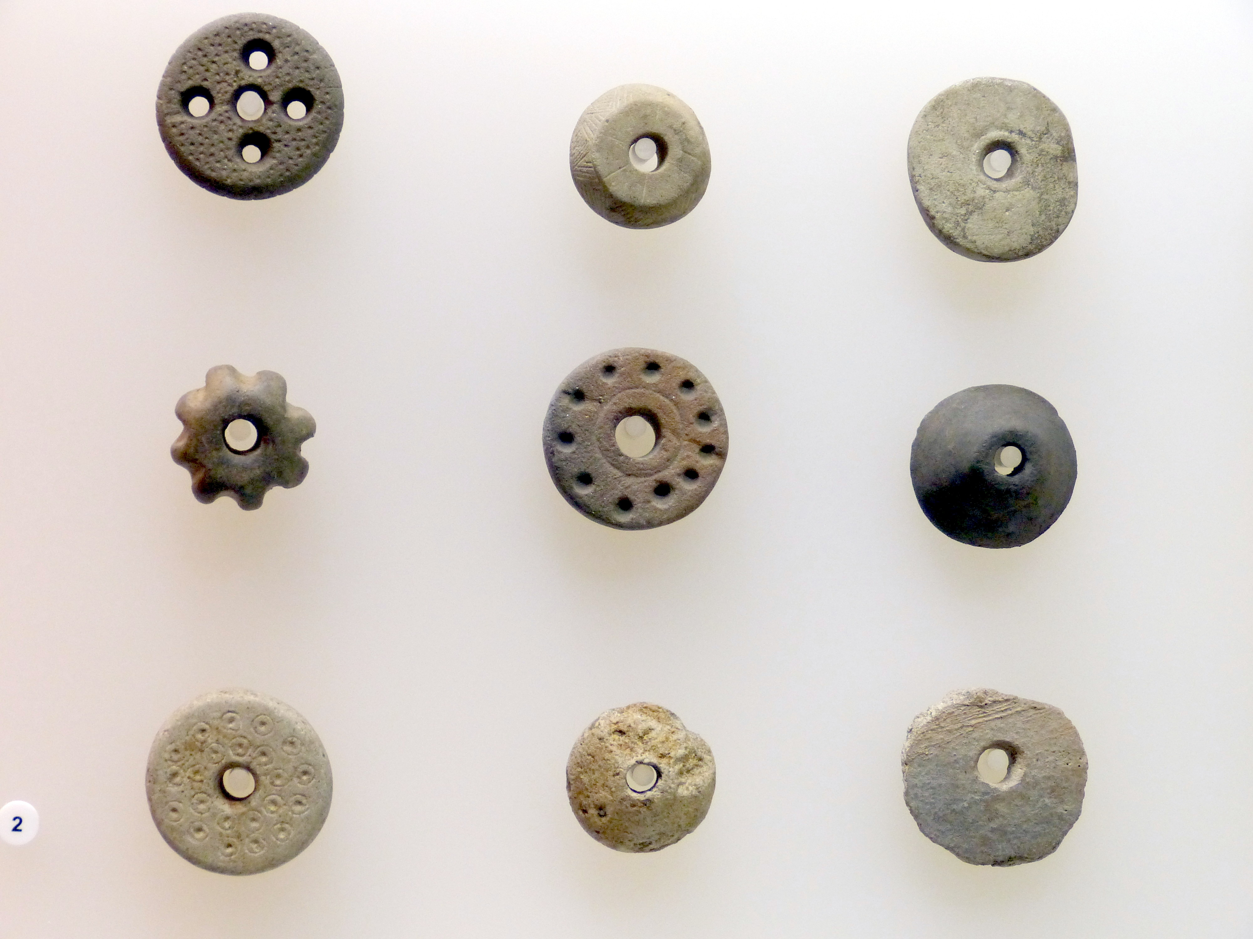 Brandenburg an der Havel ( Germany ) . Archaeological Museum of the state of Brandenburg - Iron Age Gallery: Iron age drop spindle whorls.